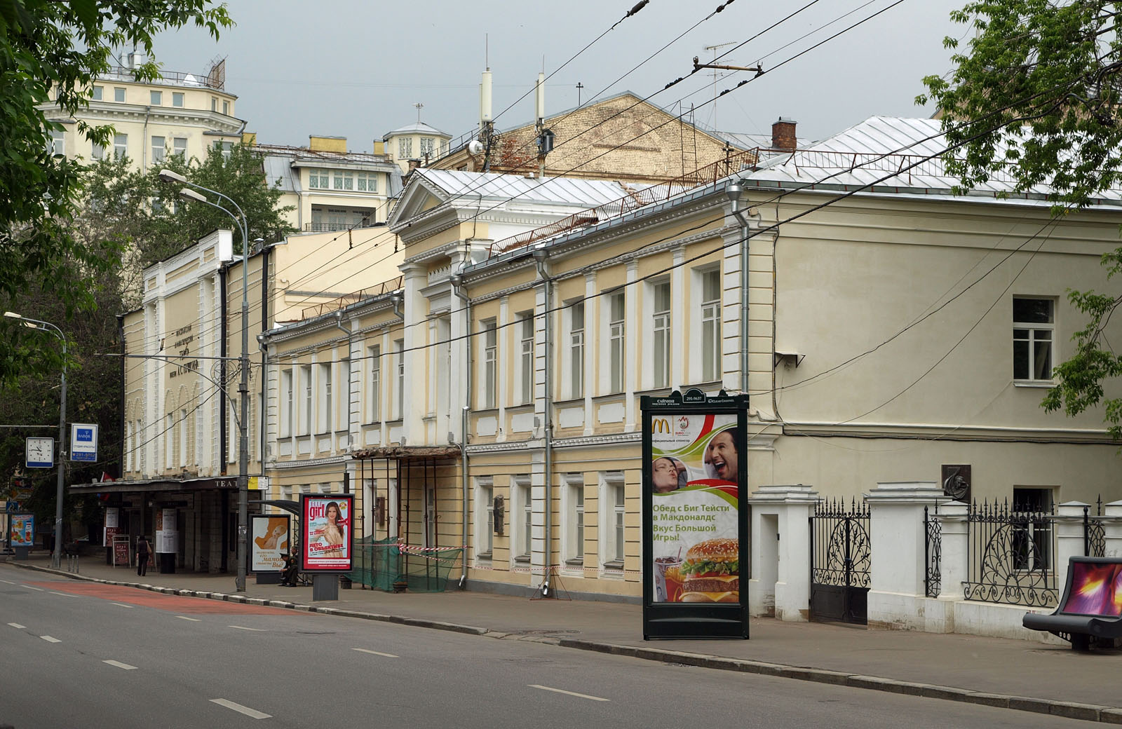 Tverskoy Boulevard, Moscow. Right: house of Alexander Yakovlev, father of Alexander Herzen, who was born here in 1812. Left: Pushkin theater, once a similar neoclassical stately home, later converted to a public theater.